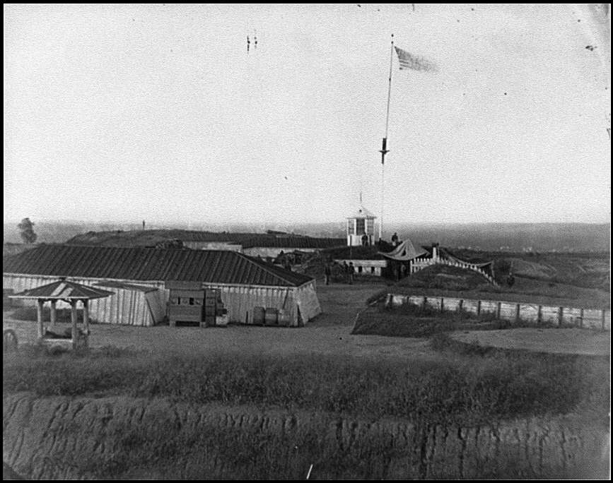 Title: District of Columbia. Interior view of Fort Lincoln Abstract: Selected Civil War photographs, 1861-1865 (Library of Congress) Physical description: 1 negative : Notes: Forts & fortifications.